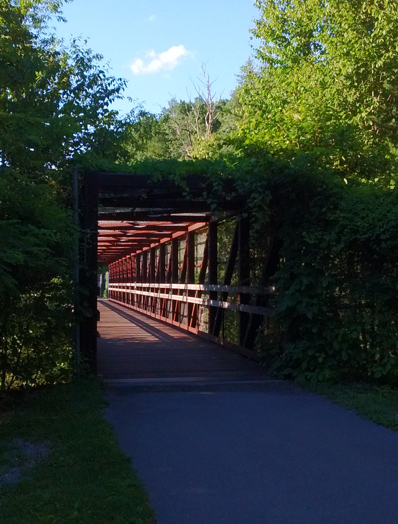 Huckleberry Trail, bridge over Whitethorn District of Norfolk Southern Railway, Montgomery County, Virginia